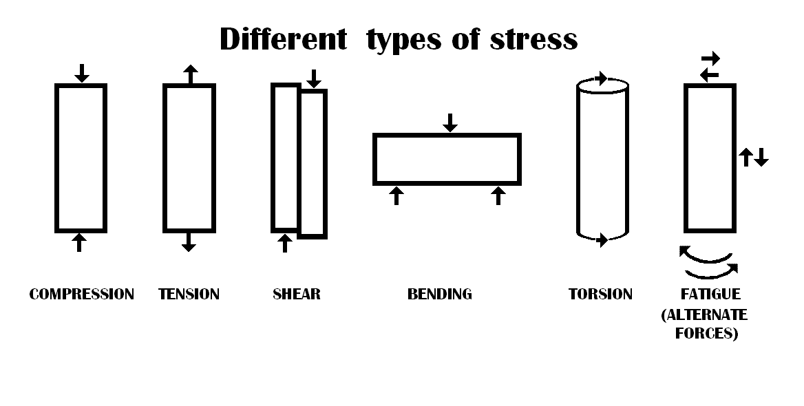 MECHANICAL STRESS